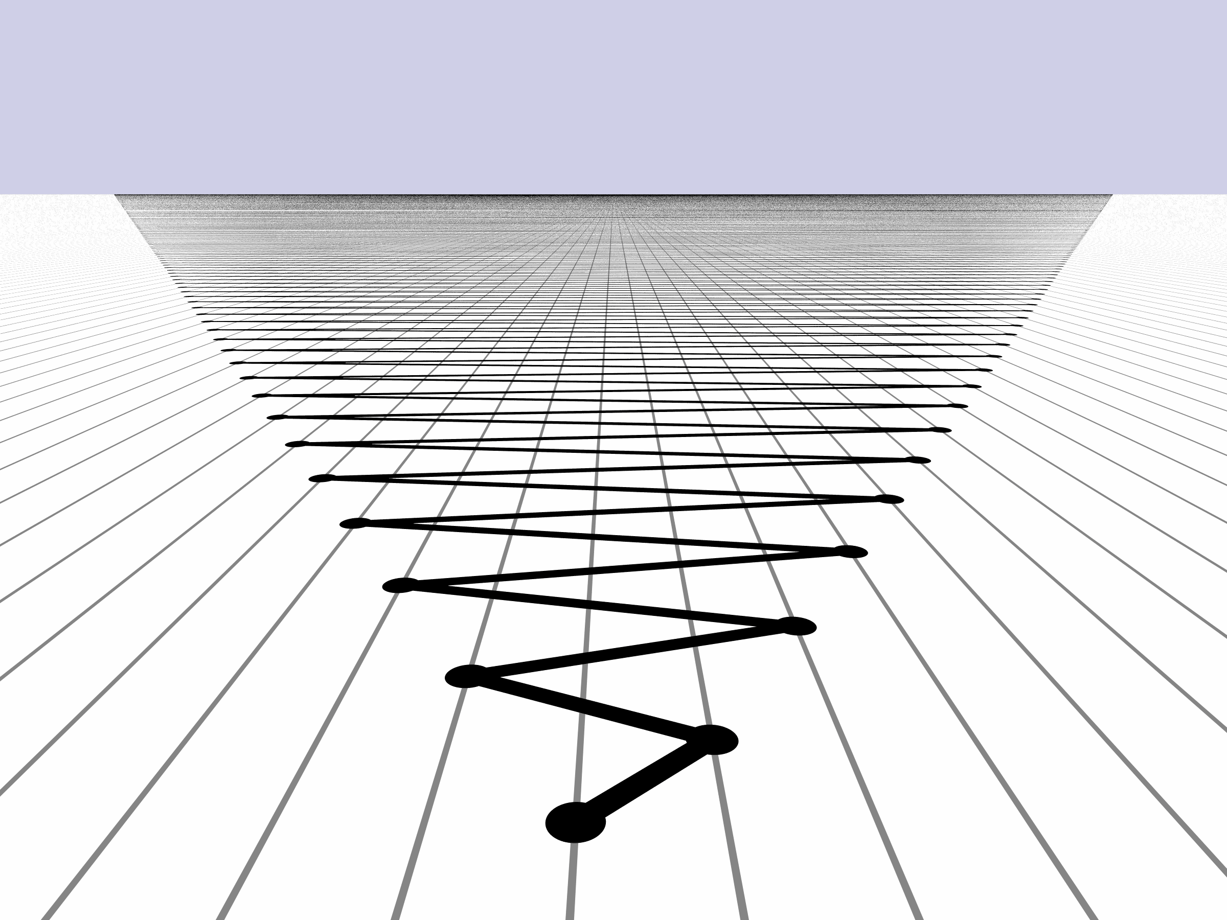 Terms and partial sums of 1 − 2 + 3 − 4 + · · · going out to the horizon. The terms are indicated as black lines executing displacements to the camera's right, plus a constant displacement away from the camera. The partial sums are where the terms end; they are indicated as black circles. The action takes place on an infinite horizontal plane. The integers are located on the gray lines. The horizon is picked out by a bluish sky. The camera type is rectangular perspective. Of course, it is placed over x equal 1/4 for symmetry.